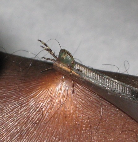 a way to remove tick